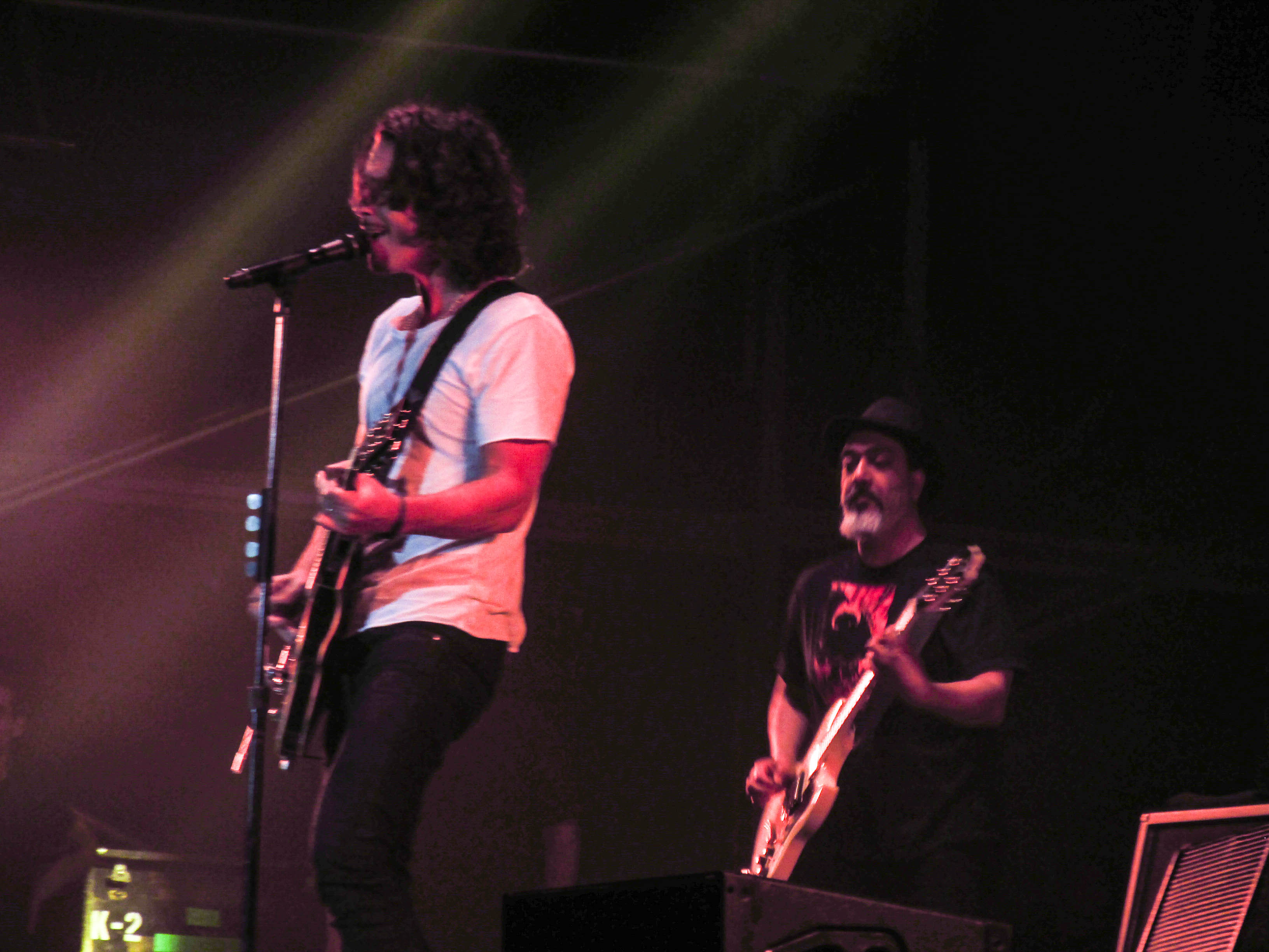 Chris Cornell & Kim Thayil performing in Auckland, New Zealand (2015)